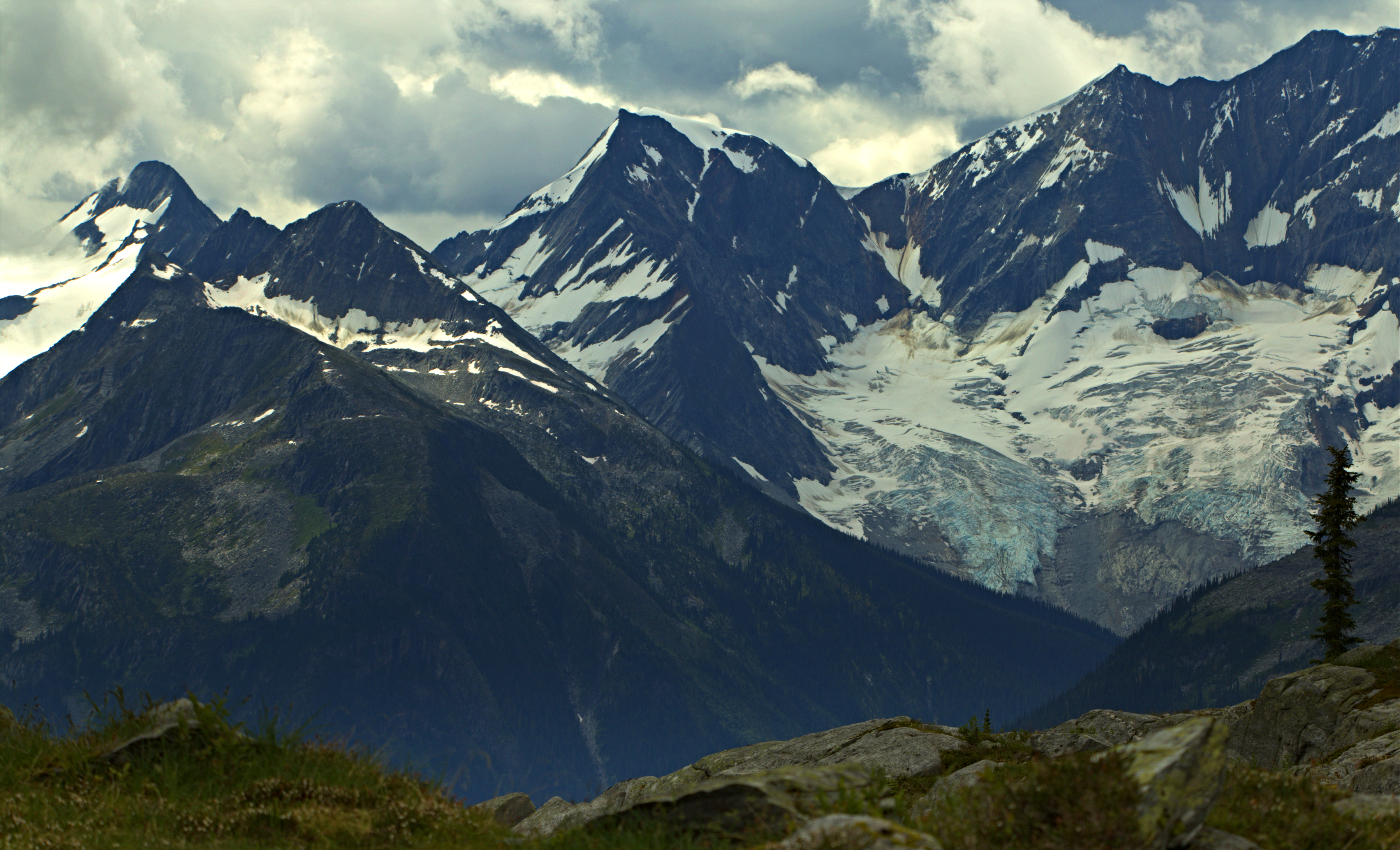 Mountains around Rogers Pass